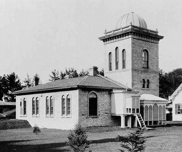 The Toronto Magnetic and Meteorologic Observatory in its original location some time between 1855 and 1907. View is to the northwest from a location where the front of Convocation Hall is today. University College just out of view to the left.